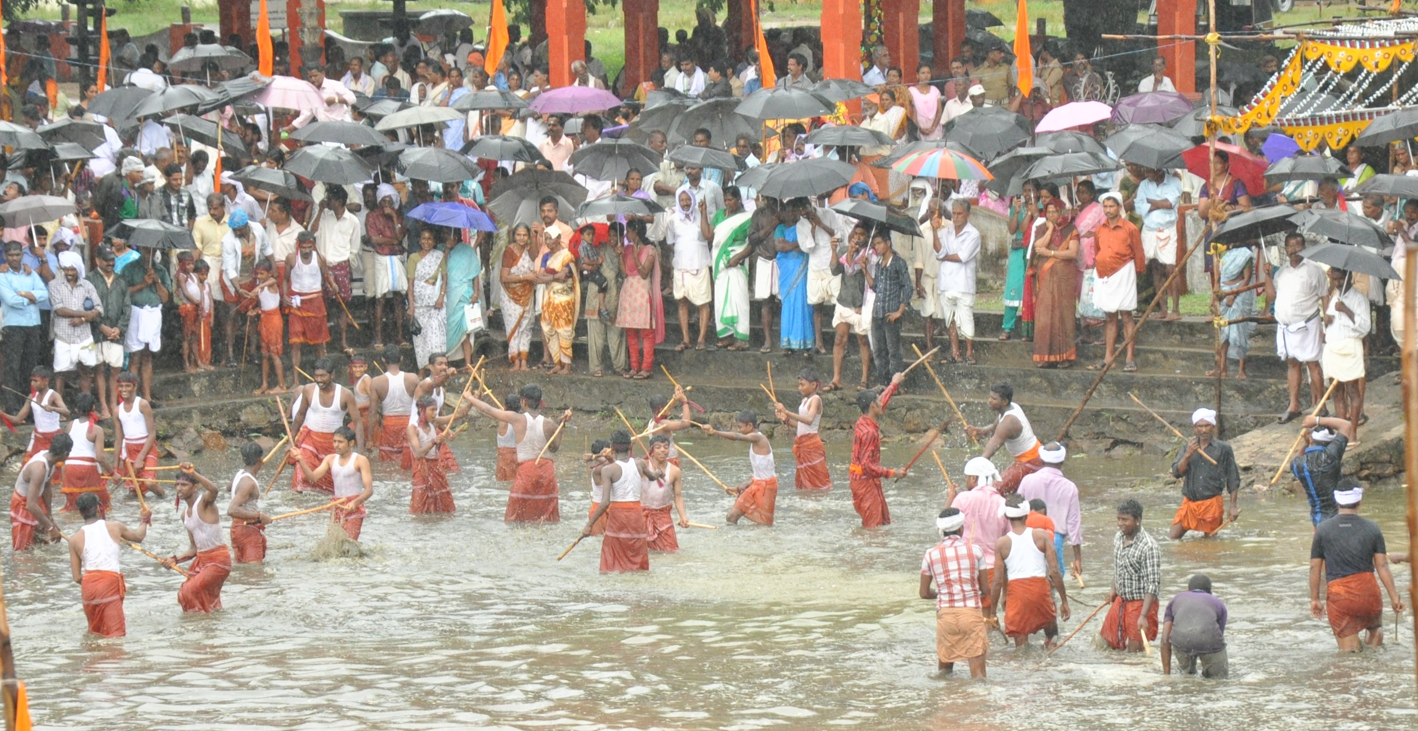 Oachira Kali festival is the traditional two-day festival at the Oachira padanilam, near Kollam.The festival is actually a mock battle to commemorate the historic battle between the Kayamkulam and Ambalapuzha kingdoms in the medieval period.